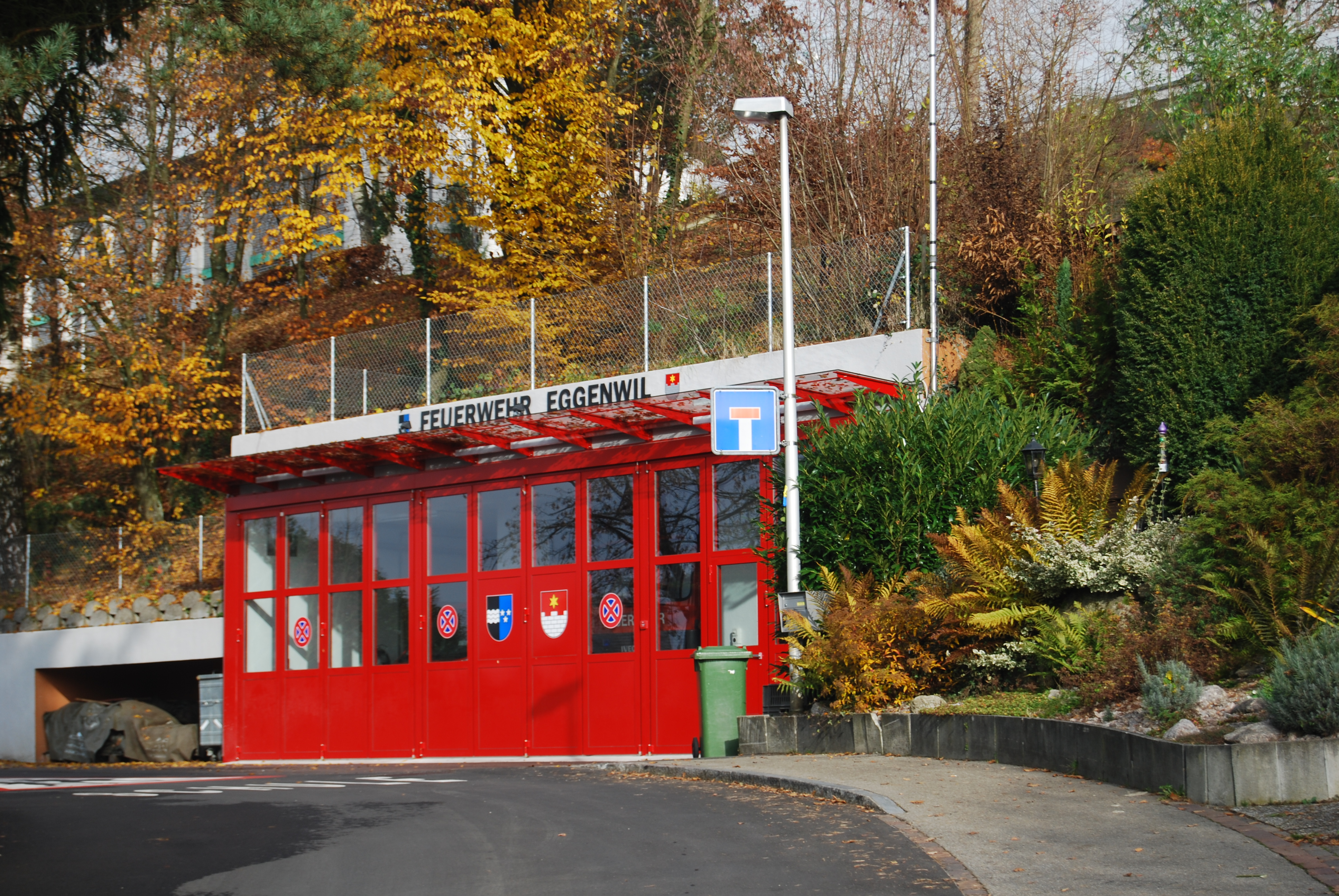 Fire fighting centre at Eggenwil, canton of Aargau, SwitzerlandEsperanto: Fajrobrigadejo en Eggenwil, Kantono Argovio, Svislando